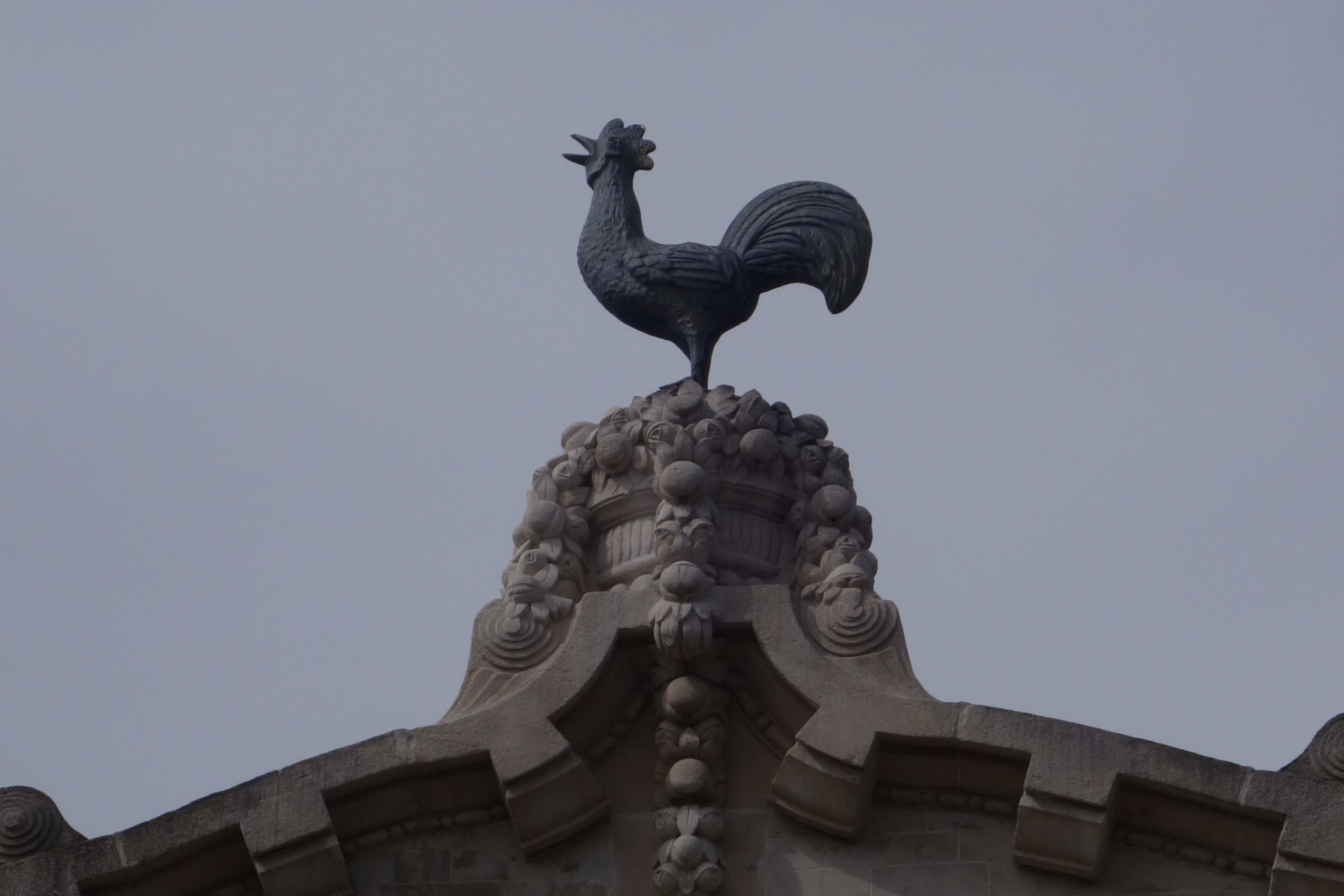 Pathé Palace